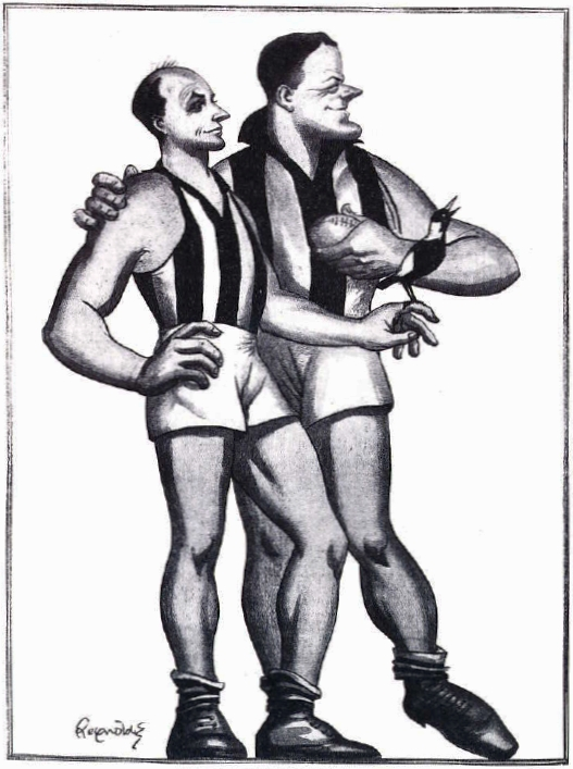 The Coventrys of Collingwood, caricature drawing, by Australian cartoonist Len Reynolds.